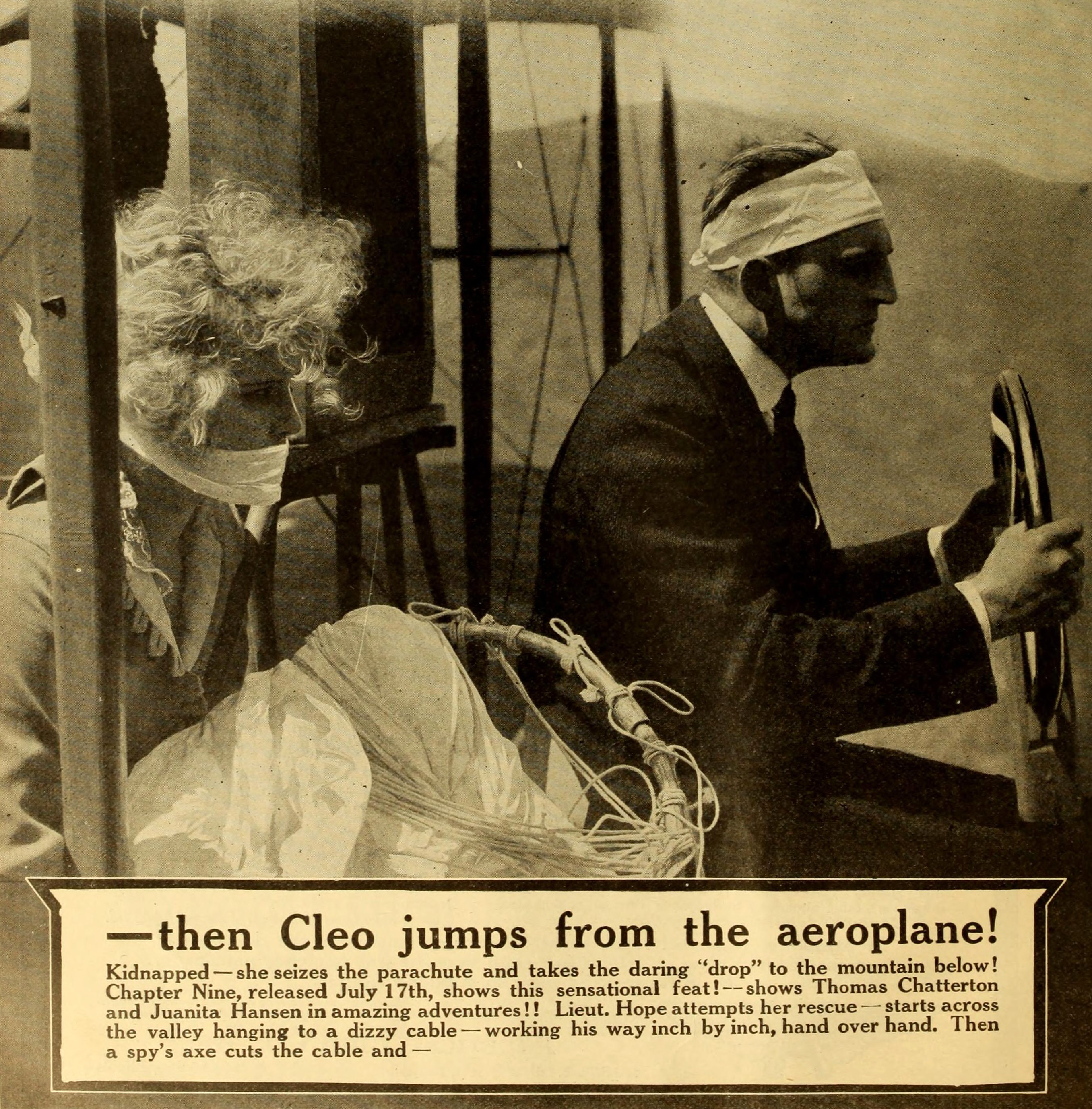 Advertisement in The Moving Picture World for the American film serial The Secret of the Submarine (1915).